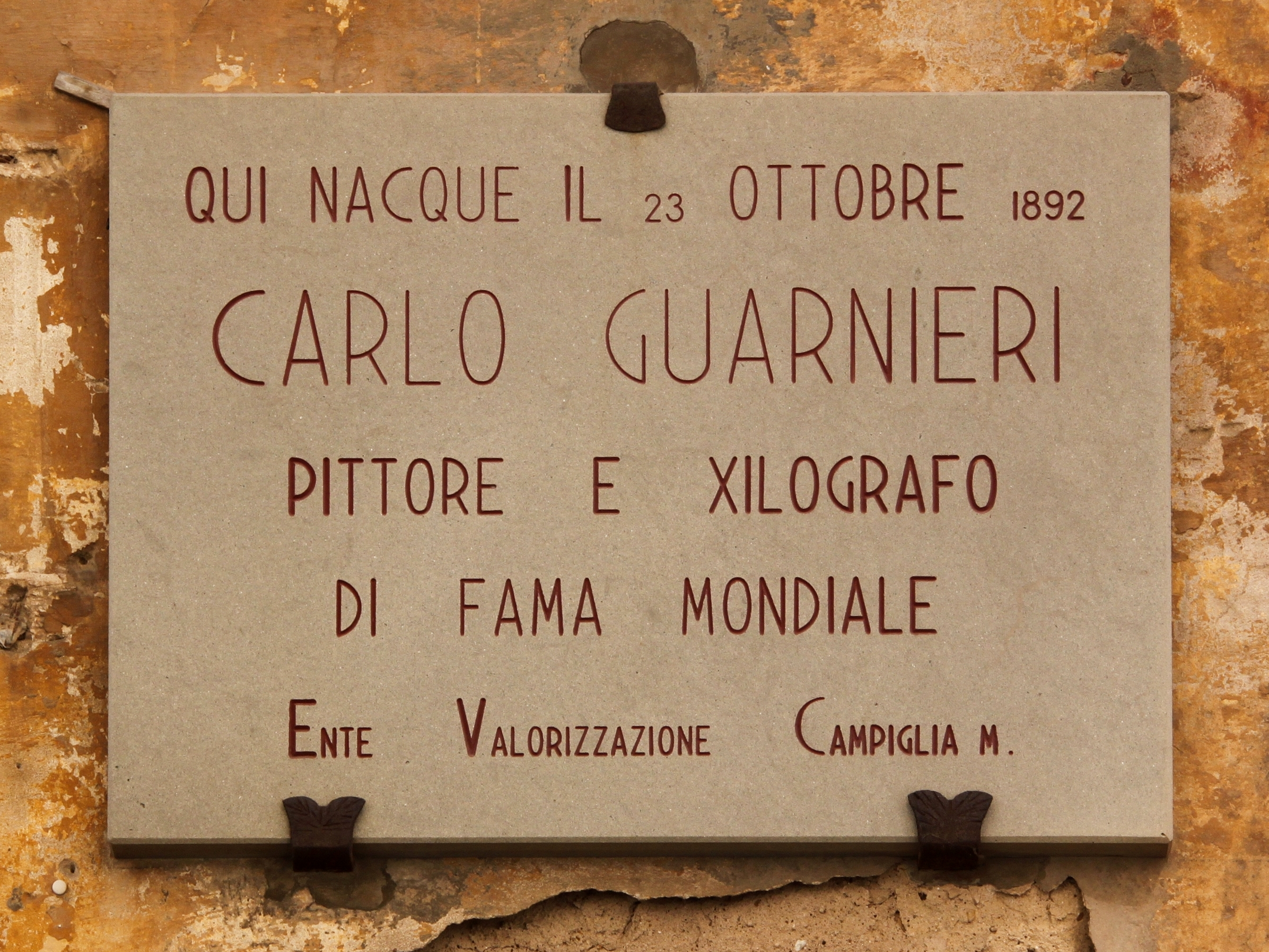 Campiglia Marittima (Via Roma 8): Plaque at Carlo Guarnieri's birthplace.